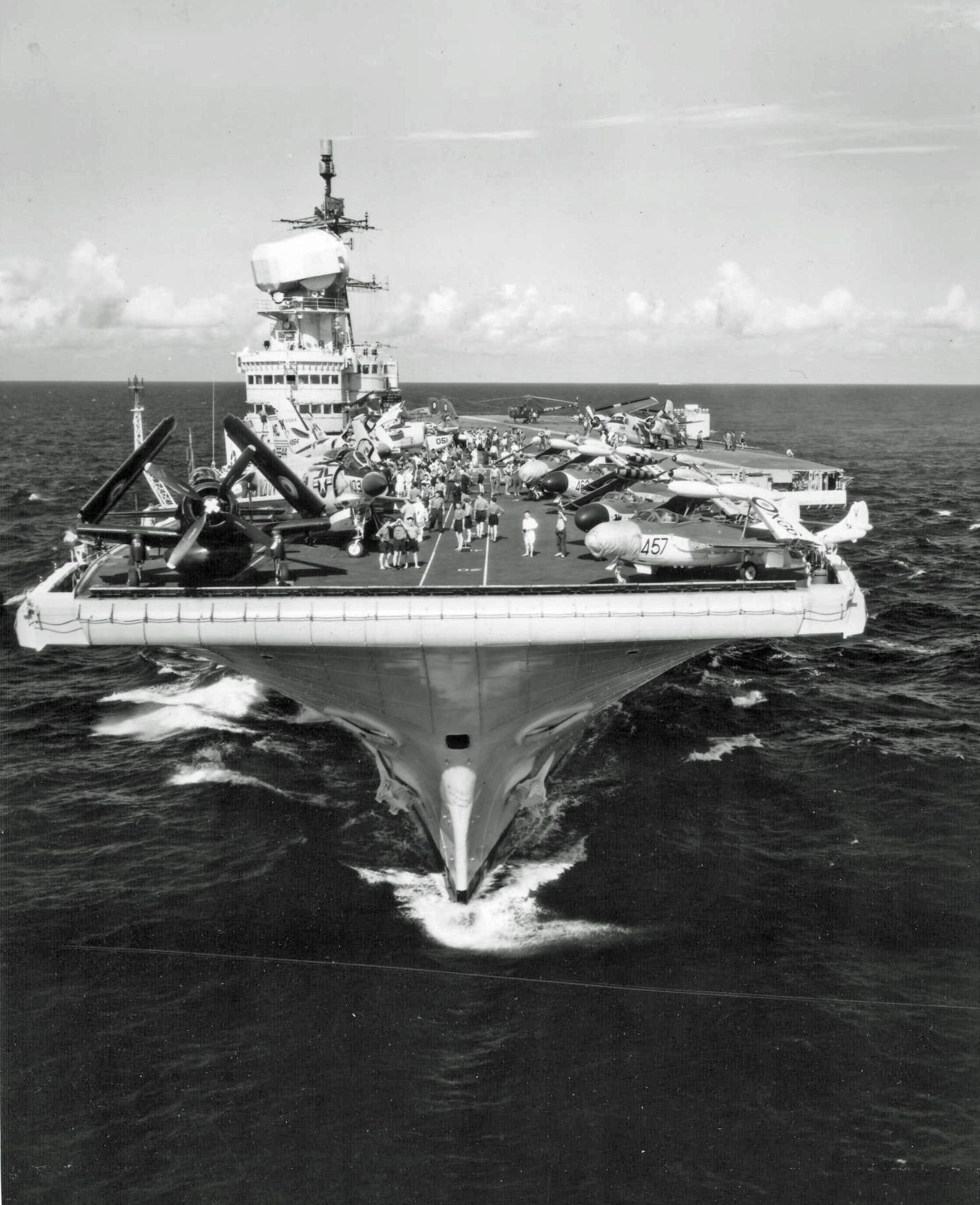 Bow view of the British Royal Navy aircraft carrier HMS Victorious (R38) operating off Norfolk, Virginia (USA), between 15 and 20 July 1959. On deck are several planes of Victorious´ air group: a Douglas Skyraider AEW.1 of 849 Naval Air Squadron, five de Havilland Sea Venom fighters of 893 NAS, two Supermarine Scimtar fighters of 803 NAS, and a Westland Dragnonfly HR.5 of Ships Flight 1 (Search and Rescue). Also on deck are serveral U.S. Navy aircraft (starboard bow): A McDonnell F3H-2 Demon of Fighter Squadron 31 (VF-31) "Tomcatters", and a barely visible Vought F8U-1E Crusader (BuNo 145544) of VF-32 "Swordsmen", both from Carrier Air Group 3 (CVG-3, tail code "AC"), USS Saratoga (CVA-60); a Douglas F4D-1 Skyray fighter of VF-13 "Night Cappers", a Douglas A4D-2 Skyhawk (BuNo 144945) from Attack Squadron 106 (VA-106) Gladiators, and two Grumman TF-1 Trader transport planes (one aft), all assigned to Carrier Air Group 10 (CVG-10, tail code "AK") aboard the USS Essex (CVA-9).